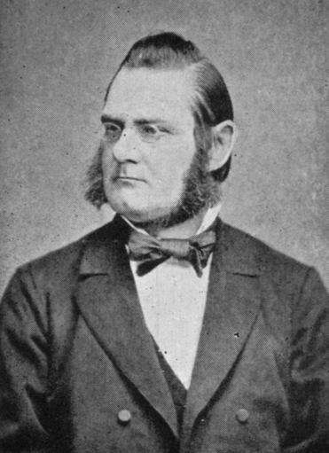 Eberhard Schrader (1836-1908), german linguist; Professor of Old Testament at Zürich, Giessen, Jena, and Professor of Oriental Languages at Berlin, the "father of Assyriology in Germany"